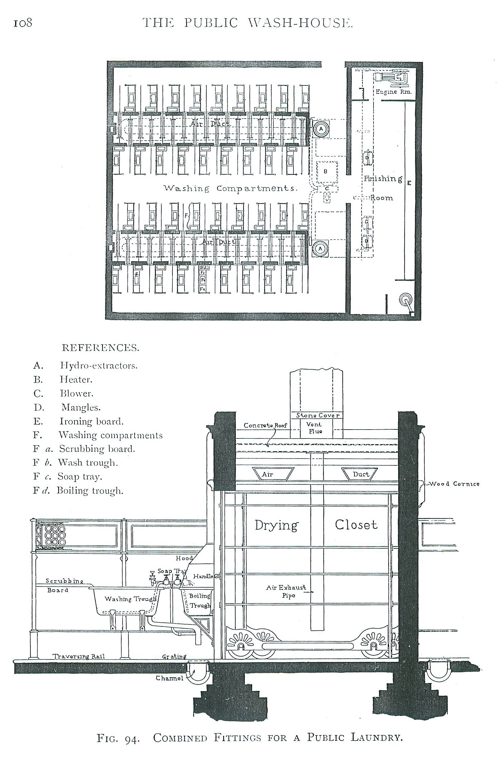 Figure 94 in Cross' book is a diagram of recommended fittings and layout for a public laundry (which would have been part of a public wash-house). Ref British Library shelfmark 8775.g.30.